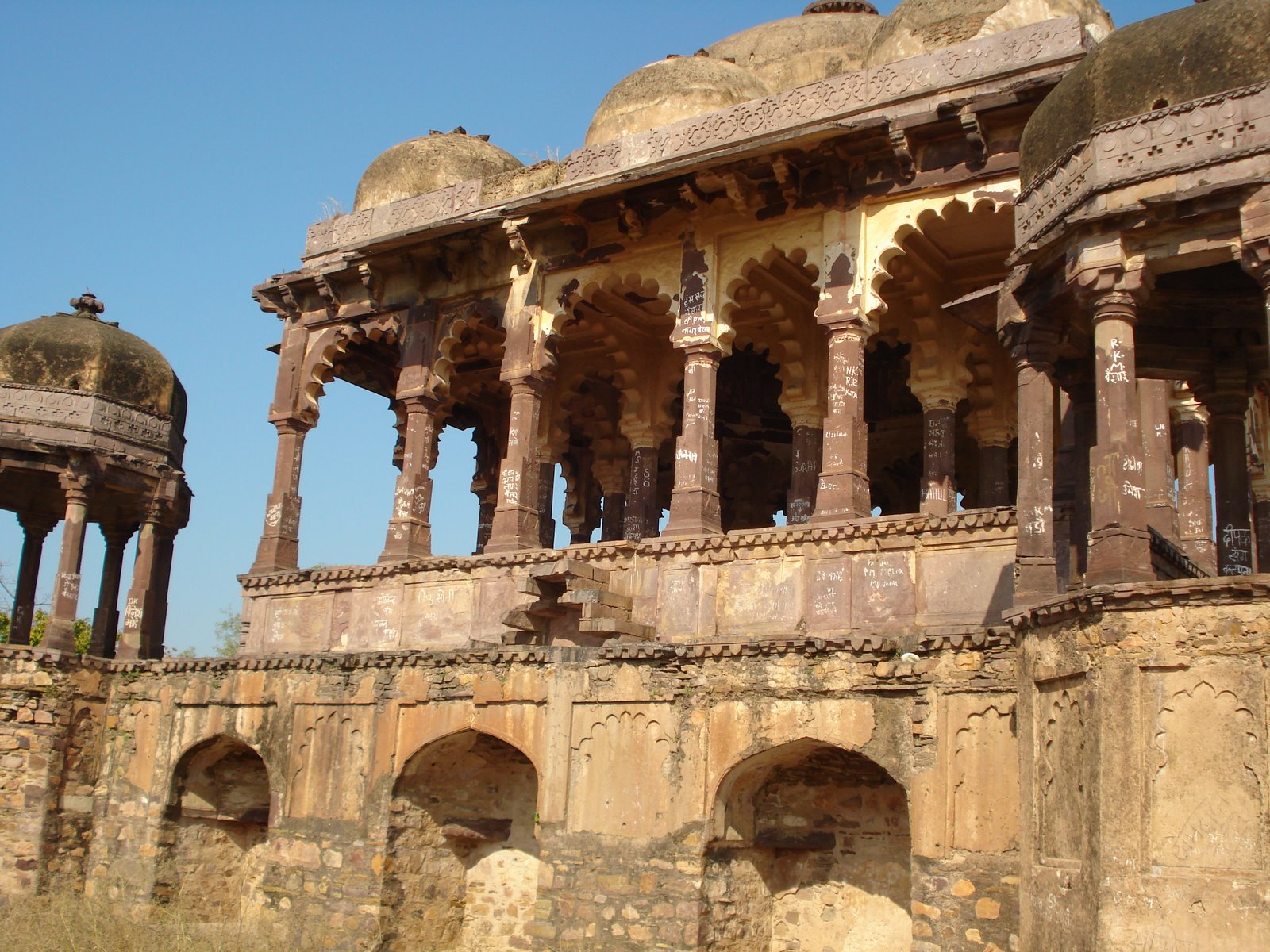 Palace inside the Fort